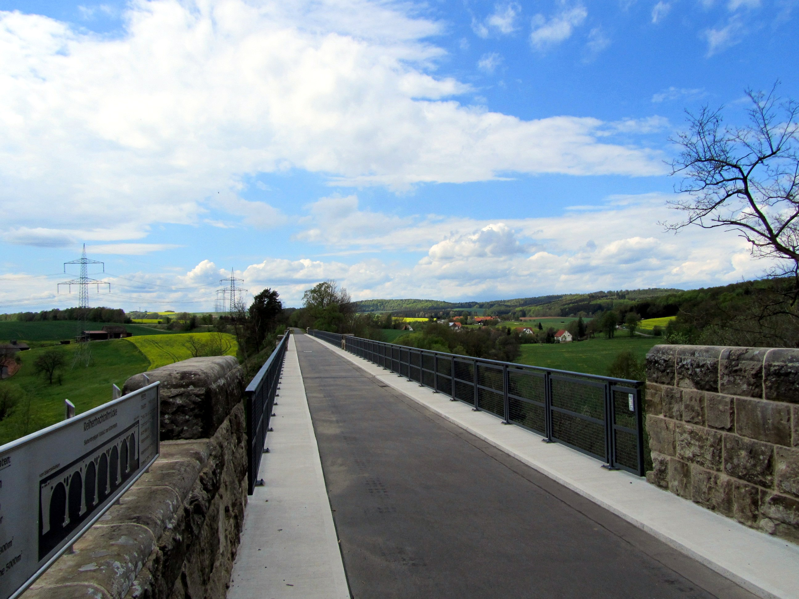 Germany / Hesse: Cycle Way "Ederseebahn-Radweg": bridge "Reiherbachtalbrücke"